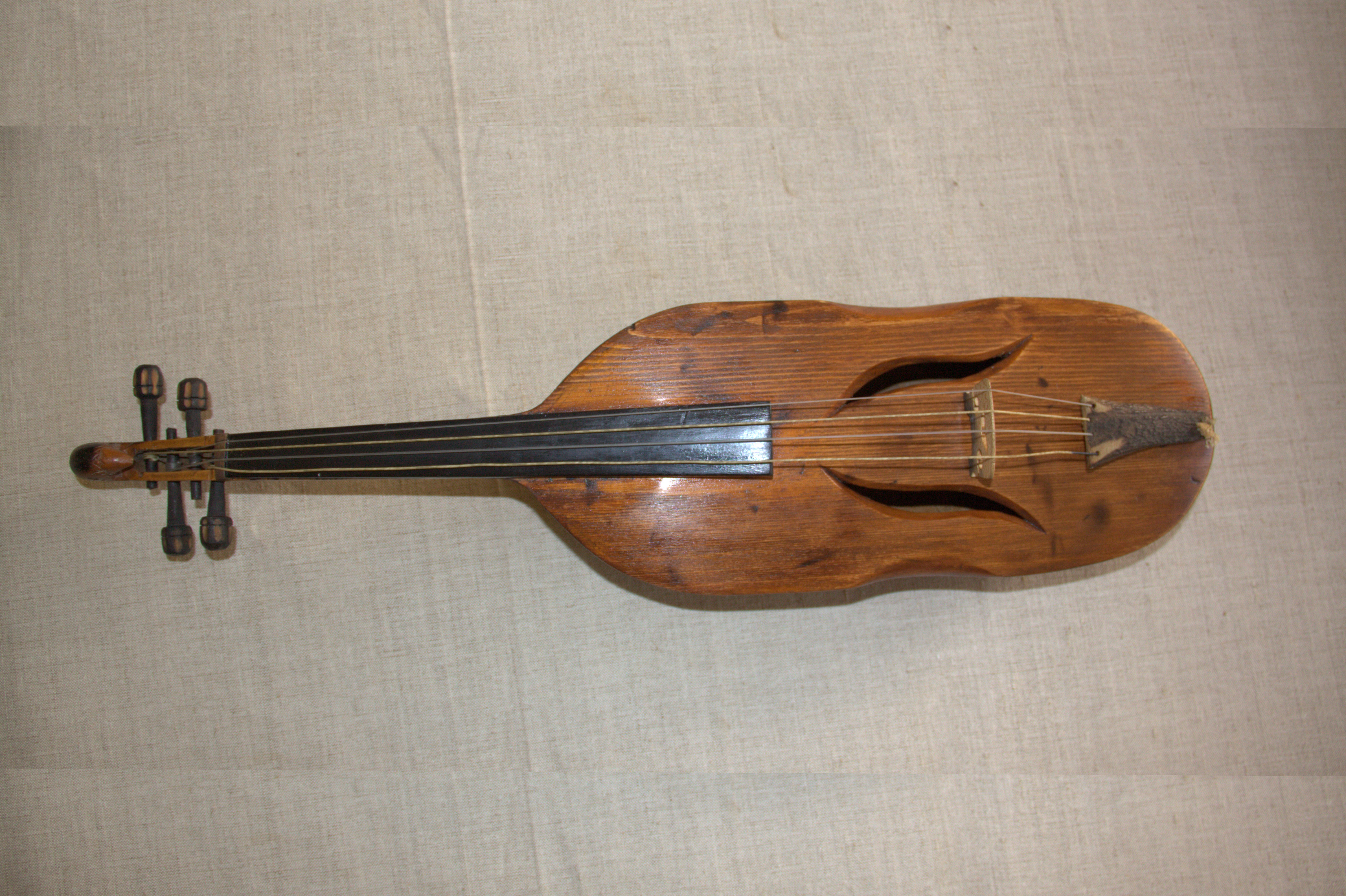 Music instrument from Ethnographic Museum in Martin